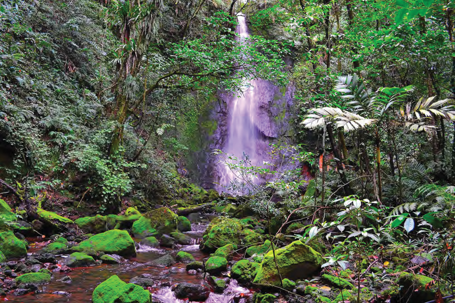 Waterfall in the crater floor of Mt. Cagua. Photo: JS.